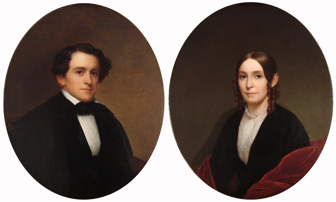 Photos of recently restored oil portraits of Simeon and Mary Chittenden in the possession of Chittenden descendents.